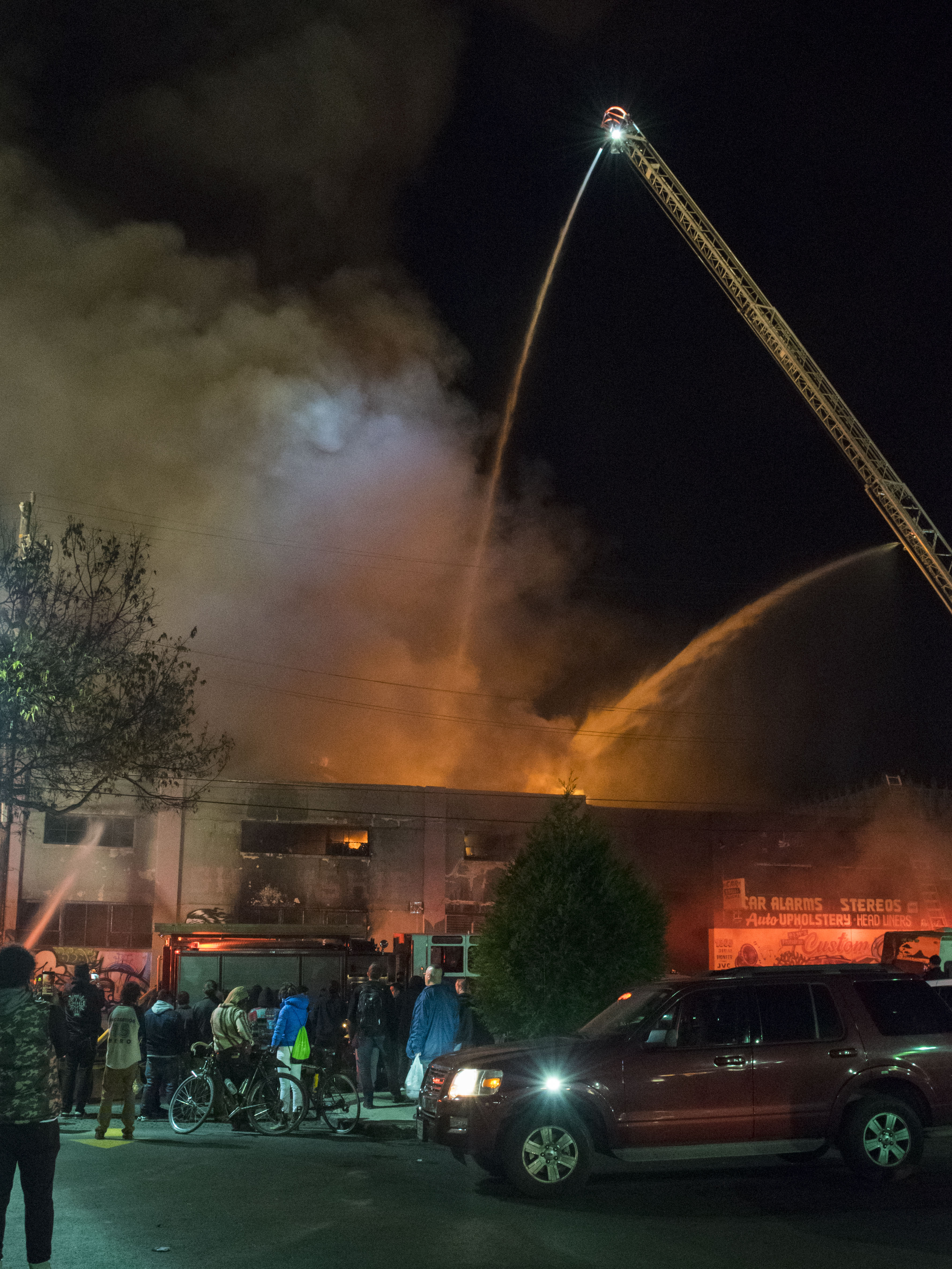 12-2-2016 Ghostship warehouse fire in Oakland, Ca.